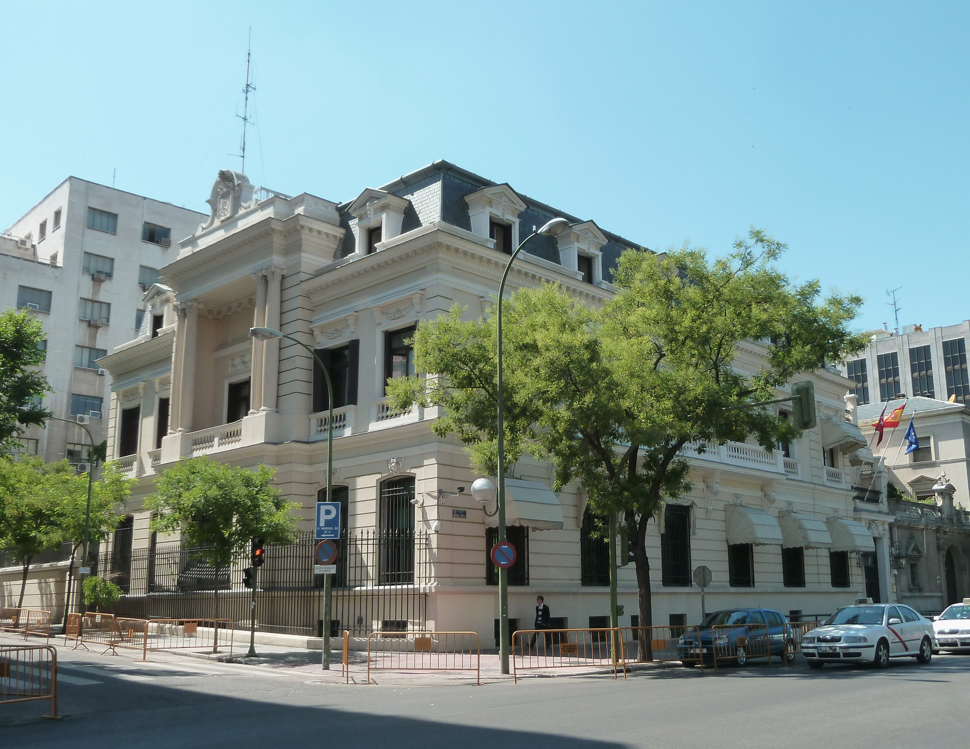 Façade of the Mansion of the Marquises of Borghetto, at 25 Calle de Miguel Ángel (street) in Madrid (Spain). It was projected in 1913 by Ignacio de Aldama Elorz and built between 1913 and 1919. Nowadays it is the home of the Government Delegation in the Community of Madrid.